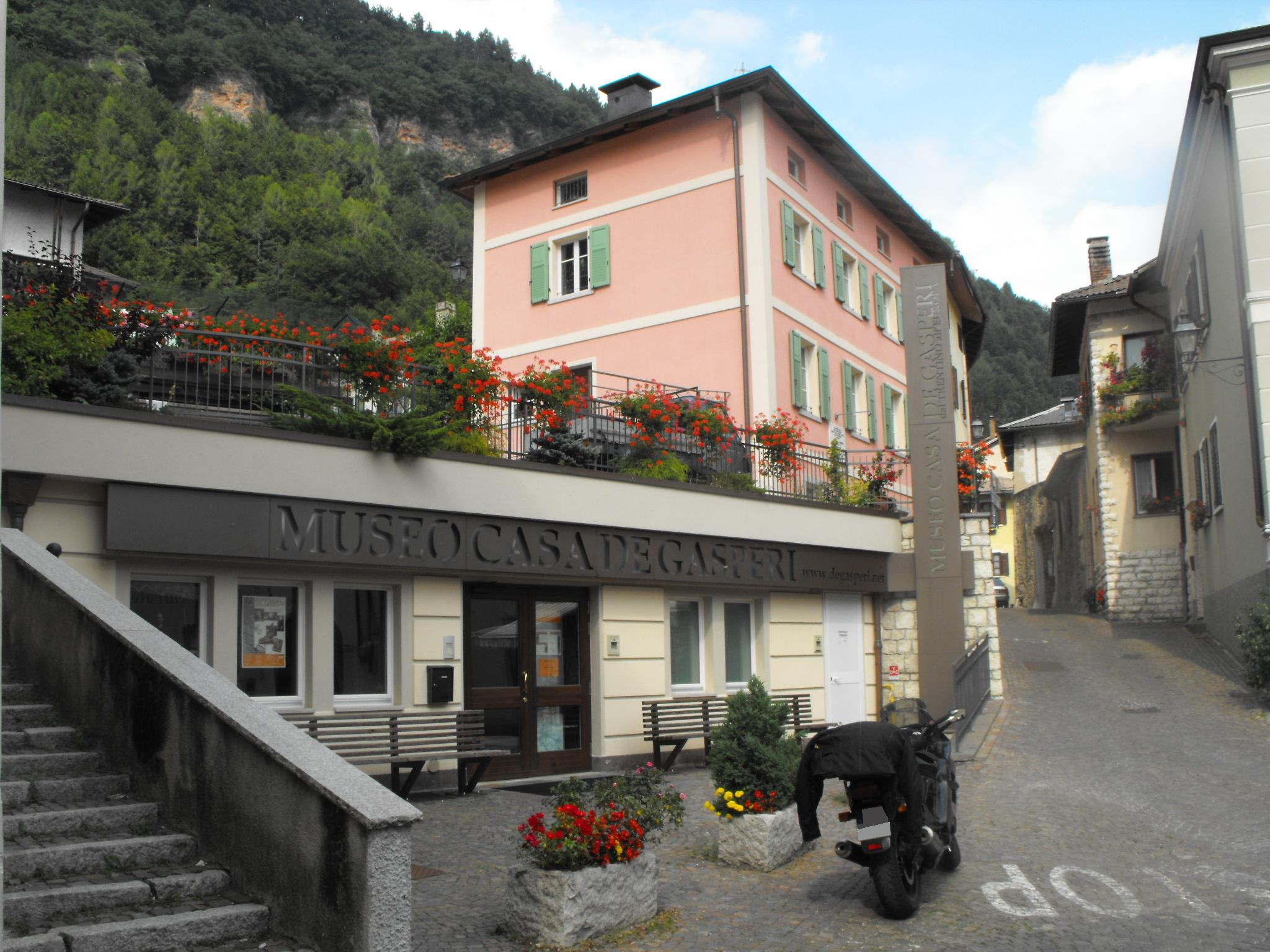 "De Gasperi's House Museum" in Pieve Tesino, Trentino South-Tyrol (Italy)